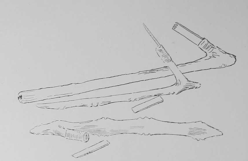 Uhi, the instruments to make moko tattoos